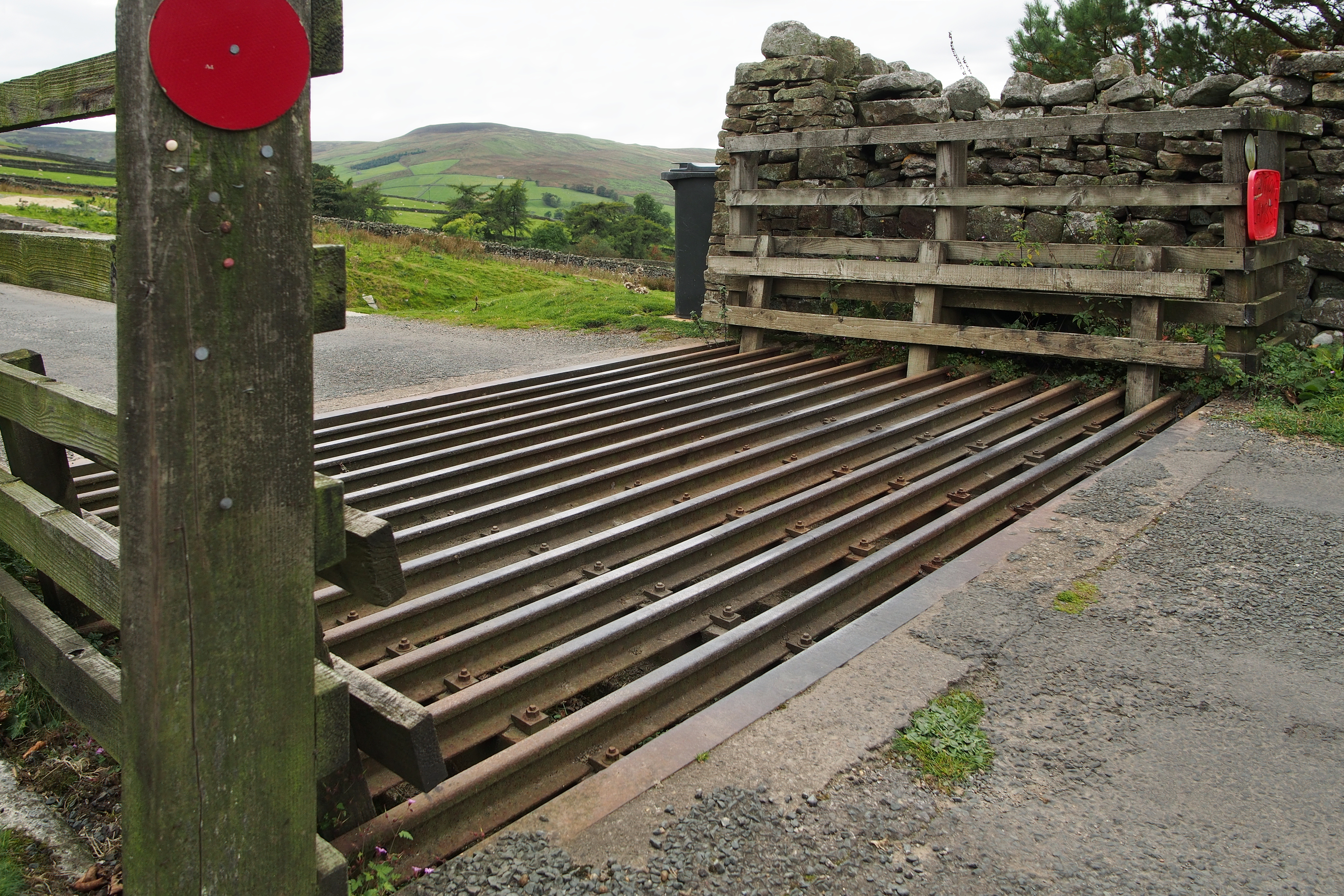 Cattle grid in a country road in Swaledale